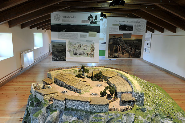 Model of the archaeological site of Castillejo of Castilfrío in the Interpretation Centre Castros and Pelendones in Castilfrío of the Sierra, province of Soria in Spain.